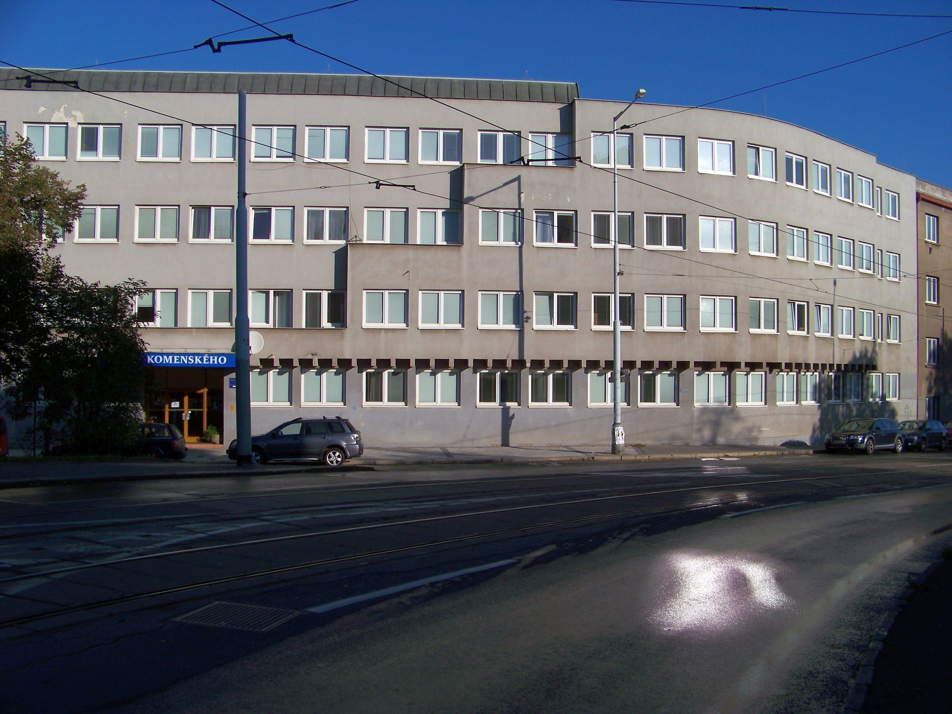 Prague-Střešovice, the Czech Republic. Myslbekova 682/13, Parléřova 682/6. - OpenStreetMap(Info)